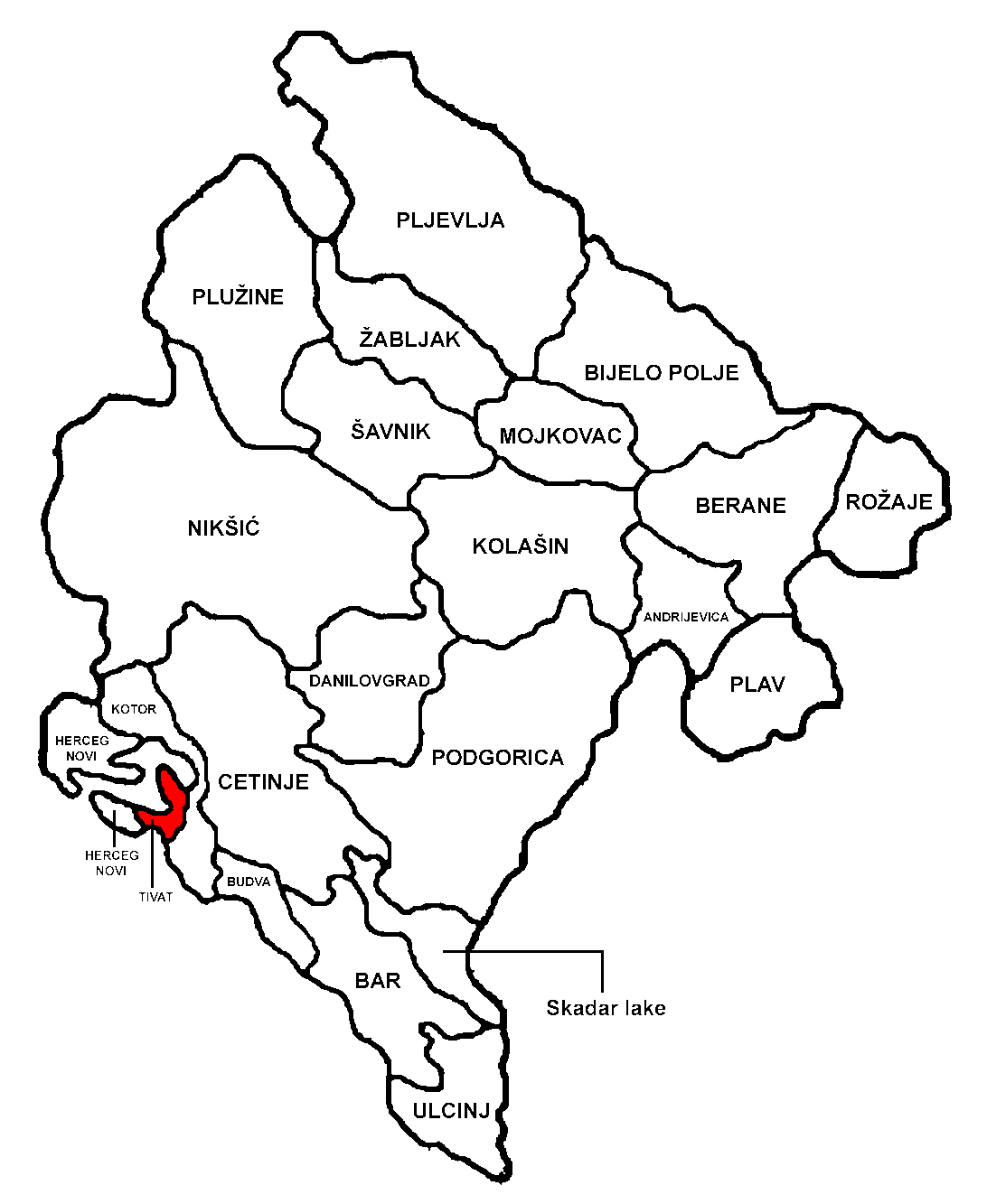 Location of Ulcinj within Montenegro